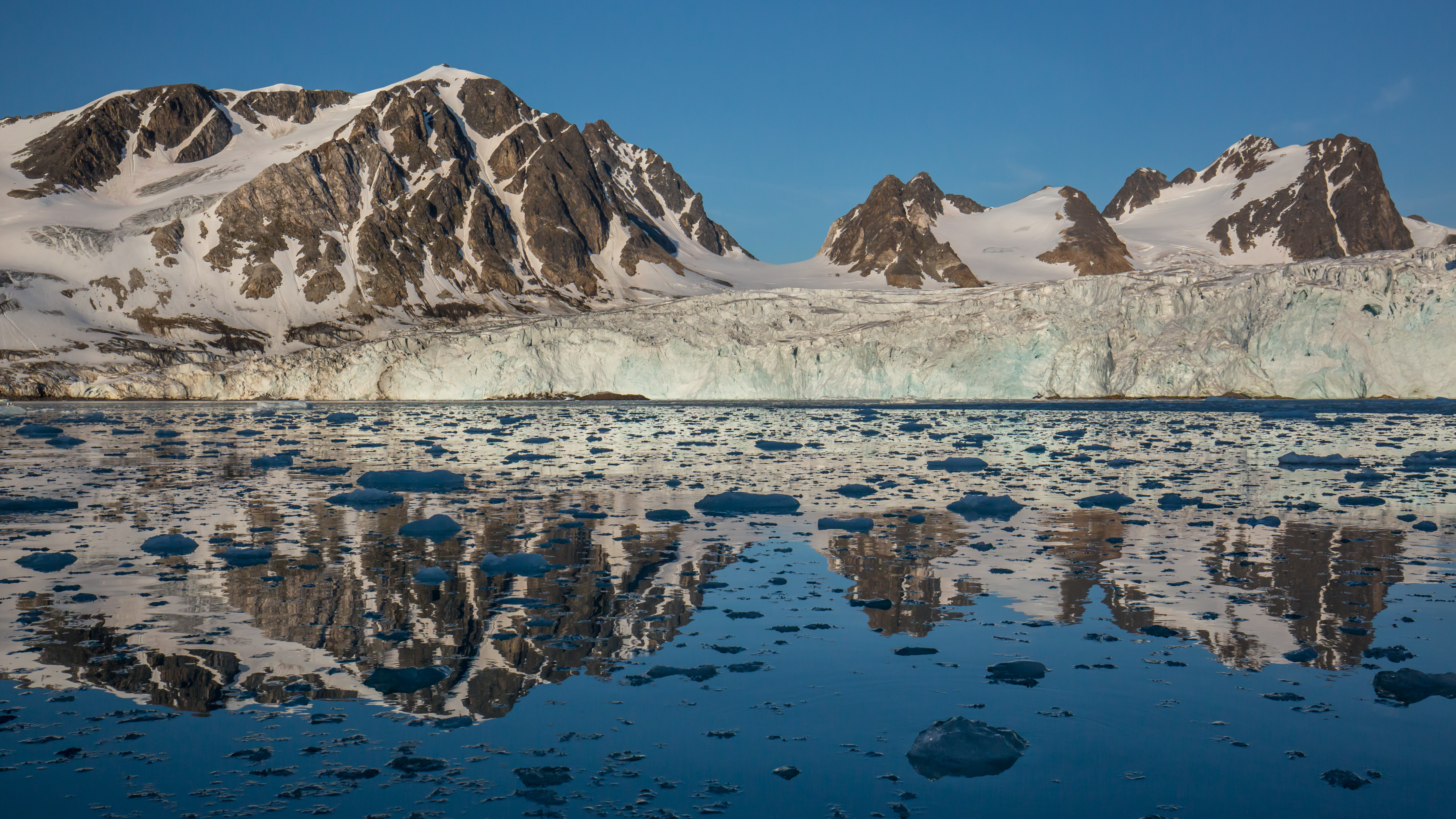 View of the southern region of the fjord with the Svitjordbreen.